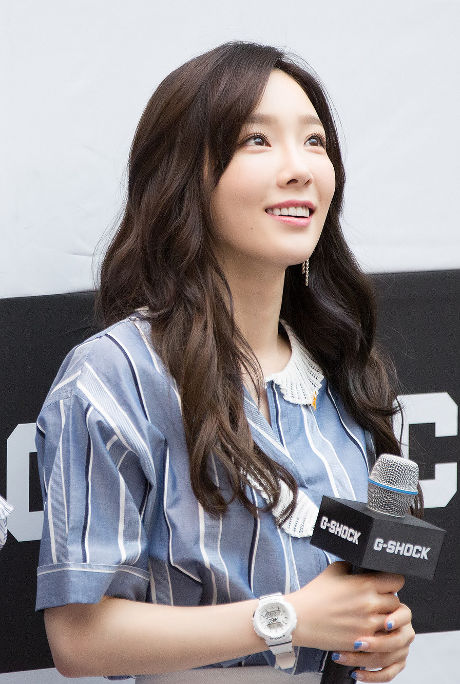 Kim Tae-yeon at Starfield Hanam G-SHOCK fan signing on April 16, 2017.